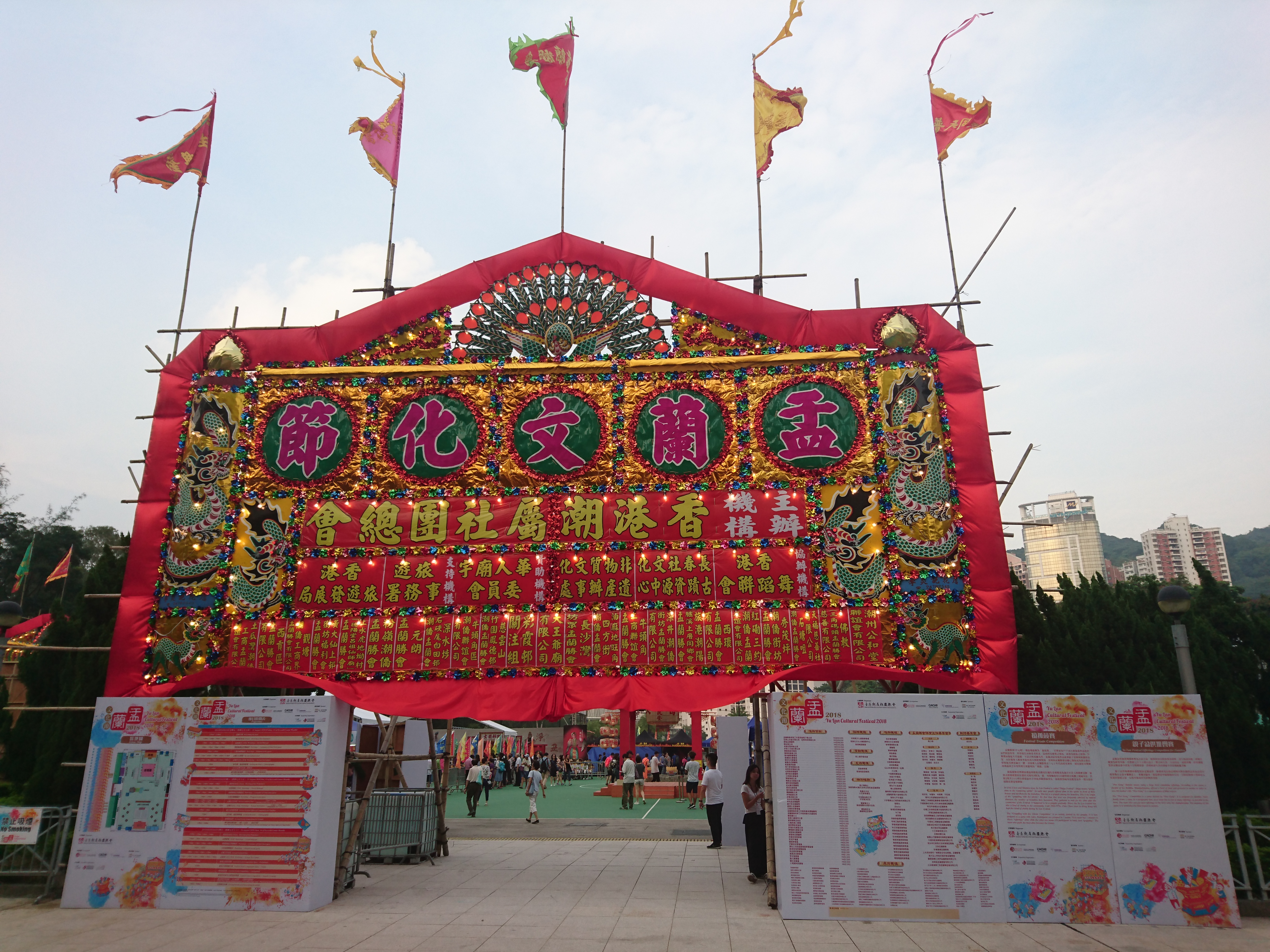 Yu Lan Cultural Festival 2018 Entrance